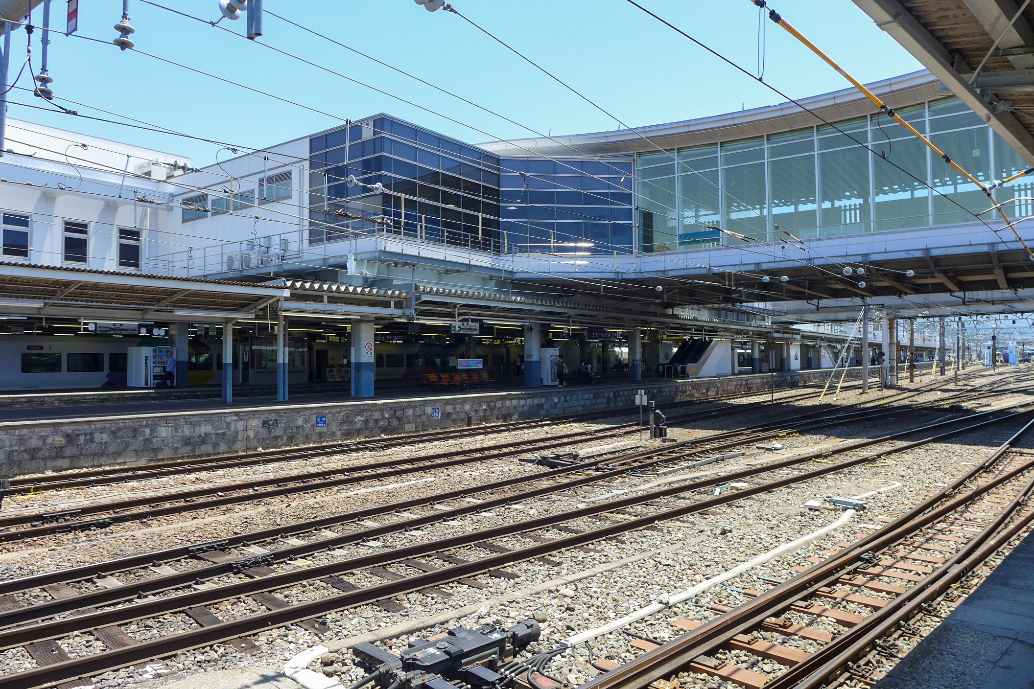 Matsumoto Station